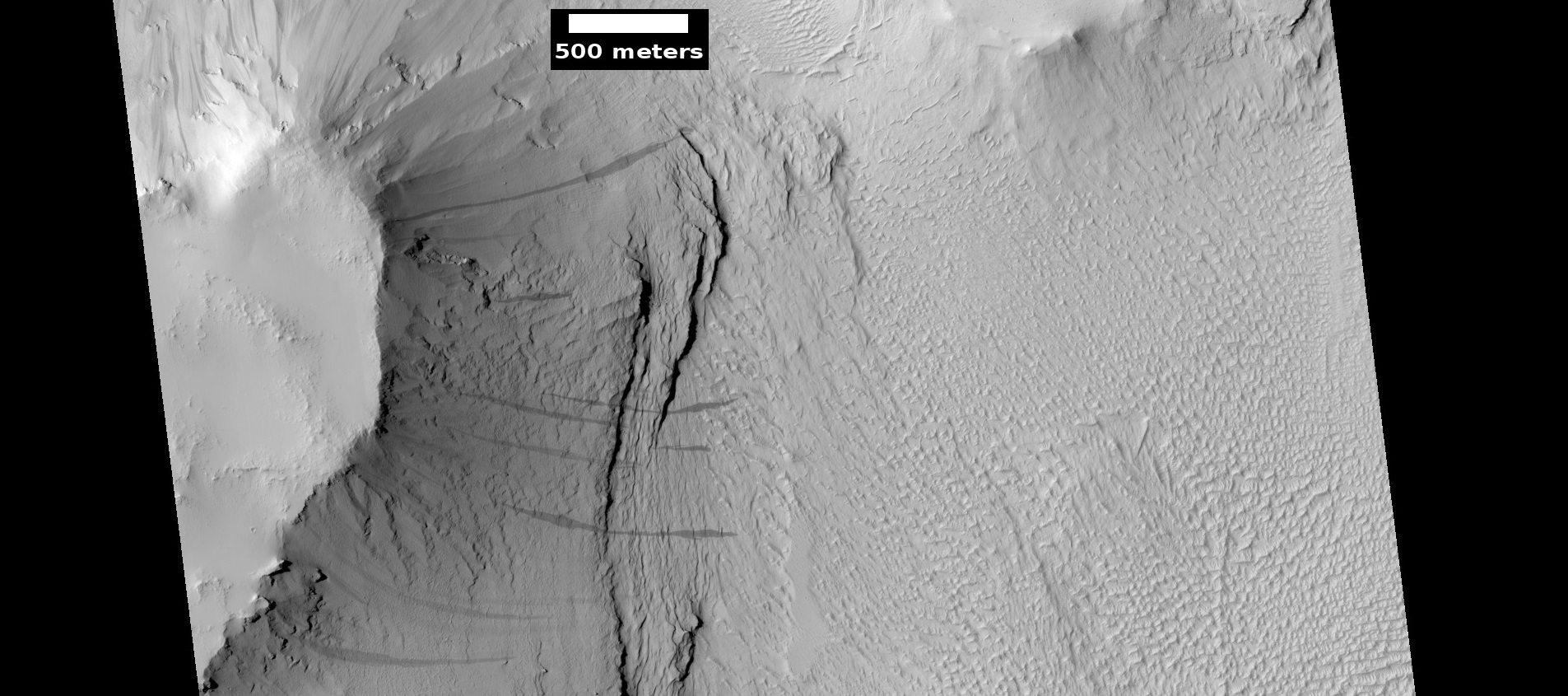 Layers in Pedestal crater in Tikhonravov Crater in Ismenius Lacus quadrangle, as seen by hirise under HiWish program